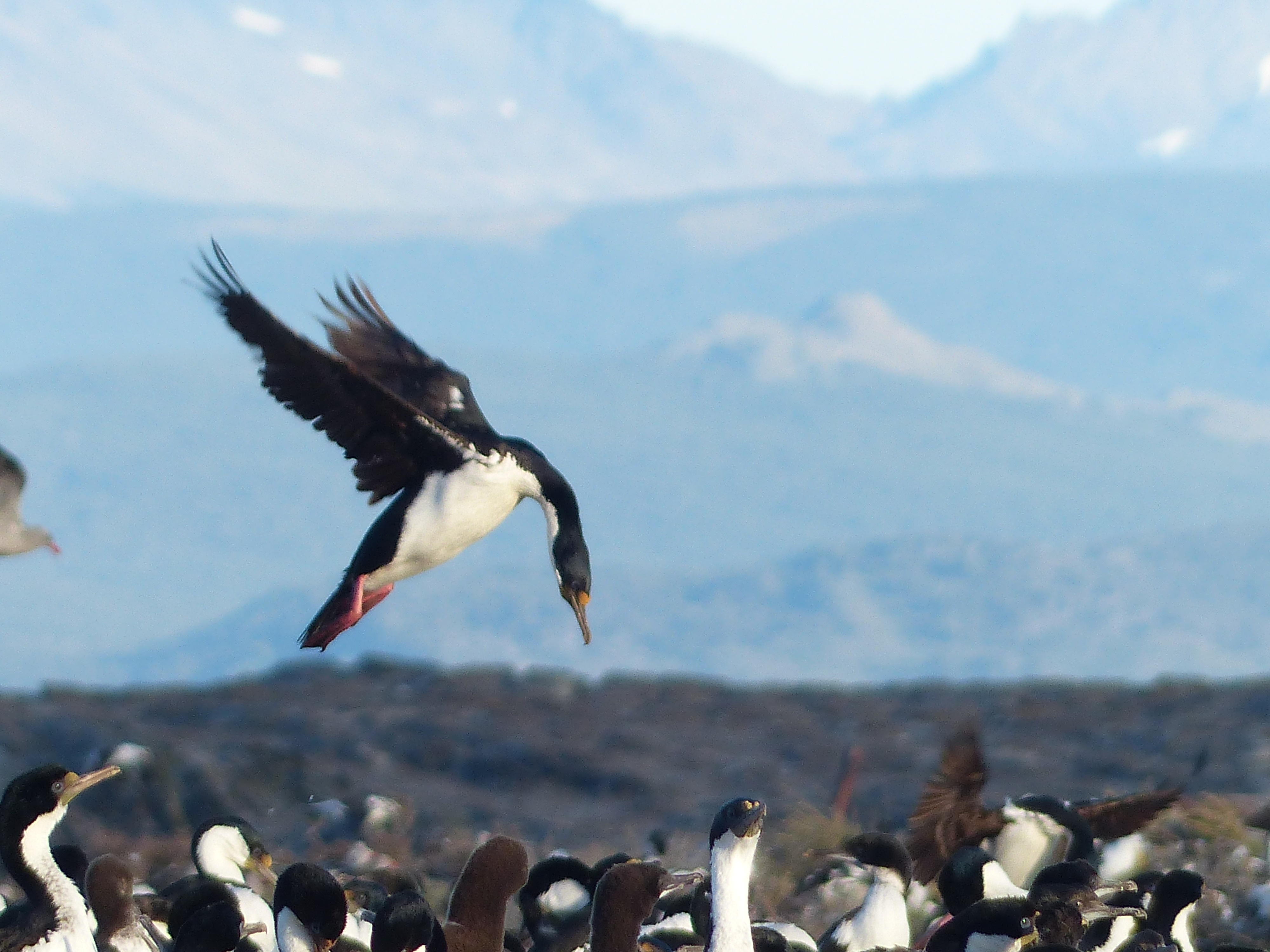 Taken on an evening boat frip from Ushuaia